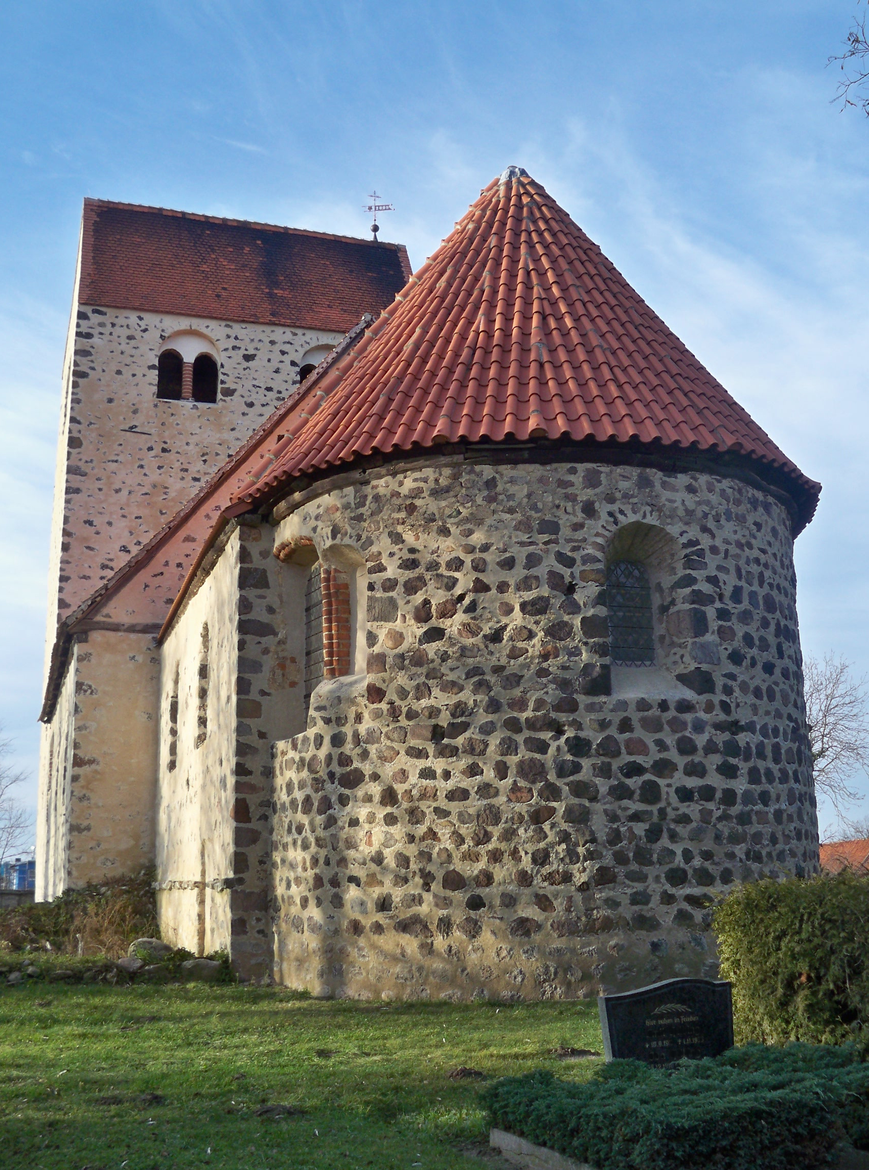 Dambeck (Salzwedel), Saxony-Anhalt, village church from the east, after the renovation 2011